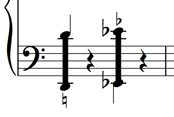 Two examples of tone-cluster notation as first used by Henry Cowell